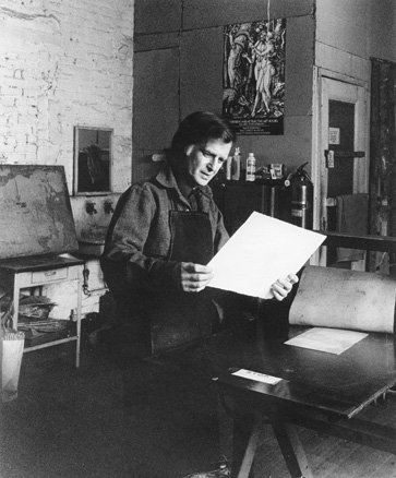 Printmaker Chaim Koppelman. Photograph by Robert Bianchi. 1981, Broome Street Printmaking Shop, NYC. Attribution — Work must be attributed to Robert Bianchi (but not in any way that suggests that he endorses you or your use of the work).